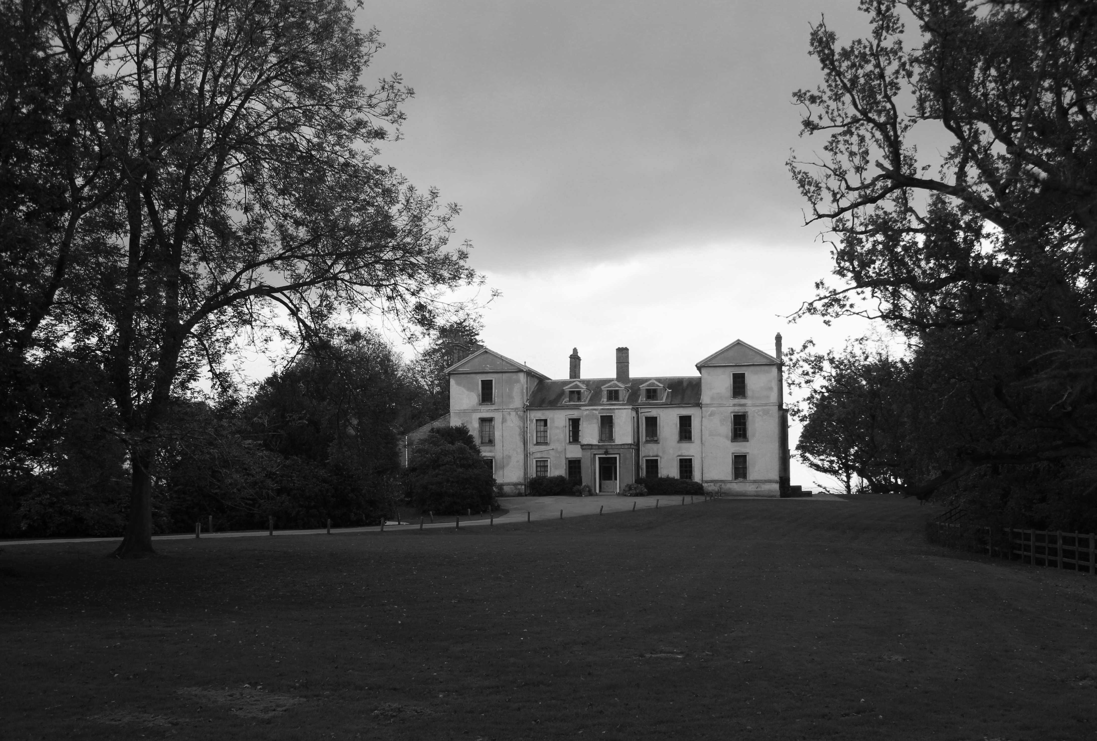 Leith Hill Place, Surrey, childhood home of the composer W:Ralph Vaughan Williams. Vaughan Williams bequeathed the house to the National Trust in 1944.